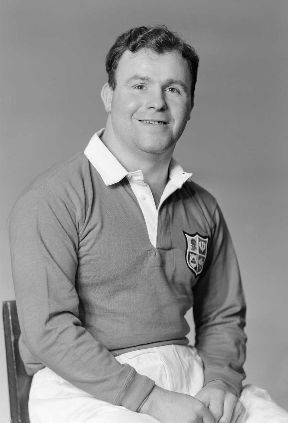 C Davies, member of the Lions, British representative rugby union team